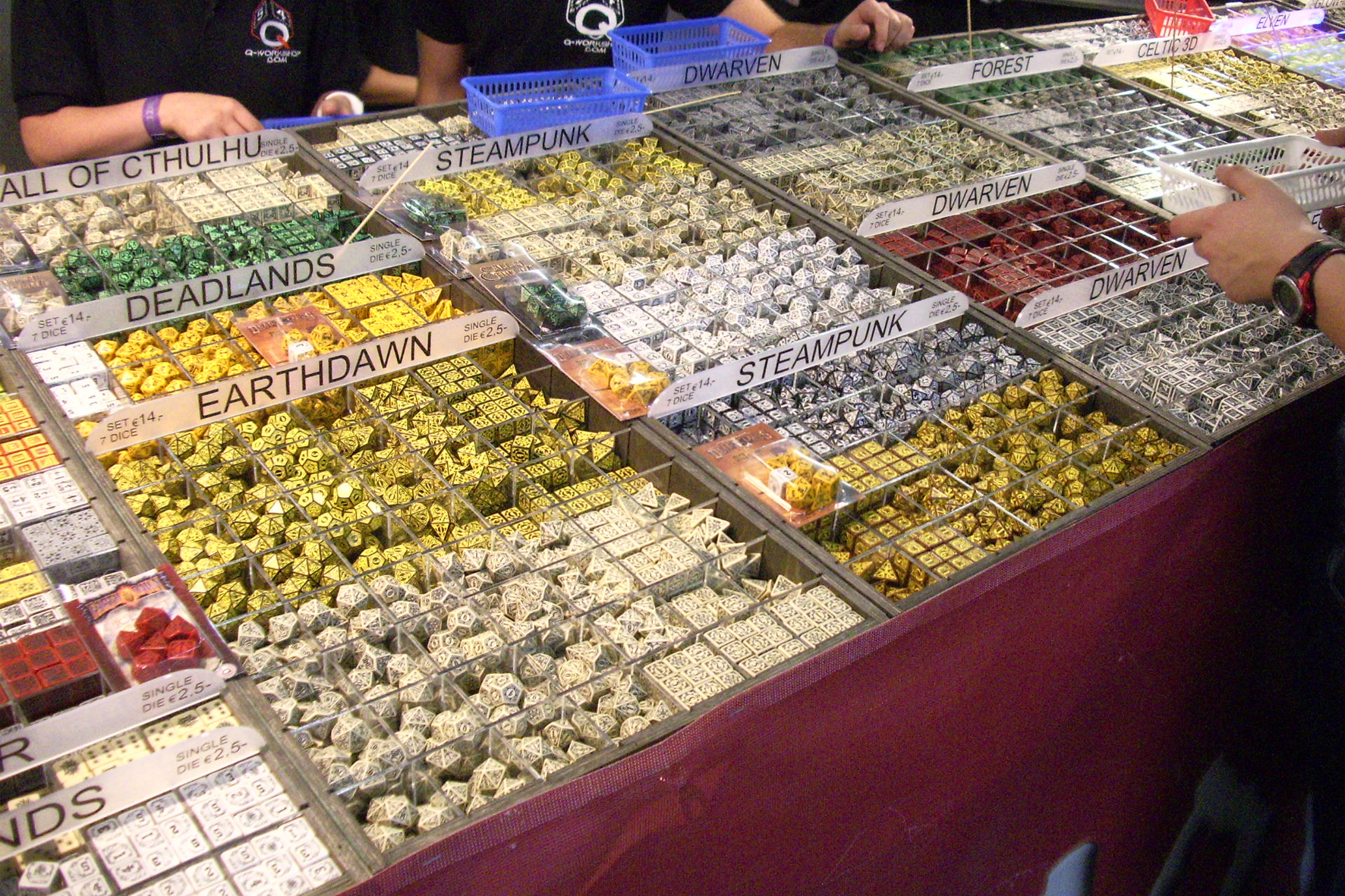 Different lot of dices by Q-whorkshop at the "Japan Expo 2012".